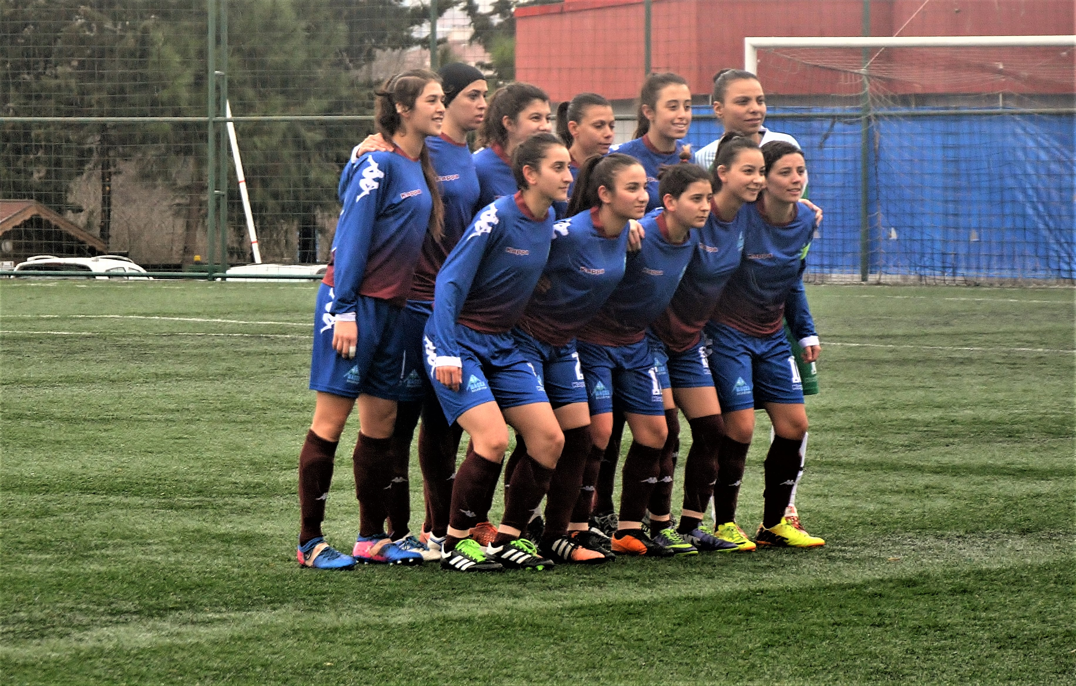 Trabzon İdmanocağı (women) players in the away match against Beşiktaş J.K. (women's football) of the 2017-18 season.